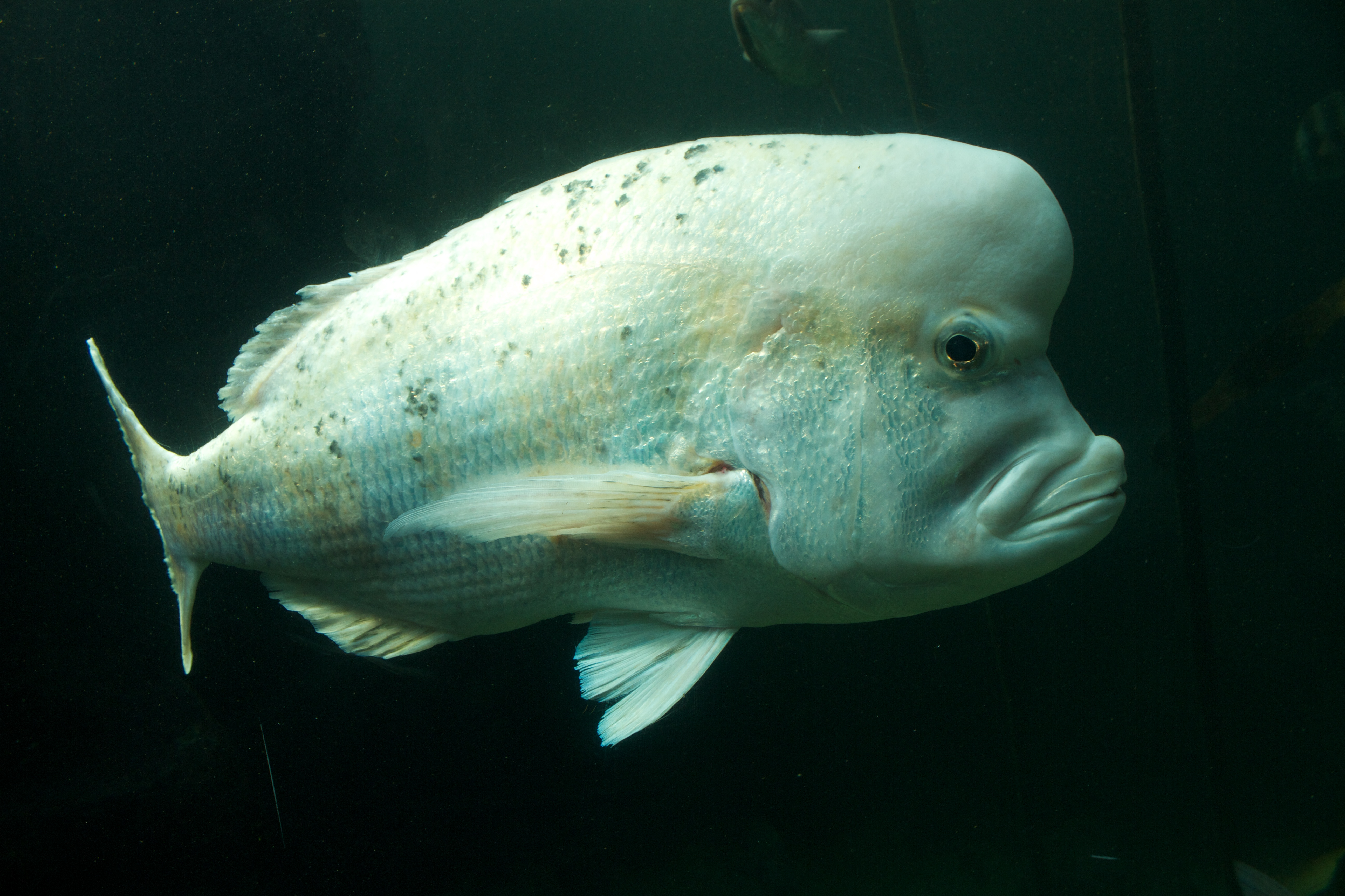 Red Stumpnose Scientific classification Kingdom: Animalia Phylum: Chordata Class: Actinopterygii Order: Perciformes Suborder: Percoidei Superfamily: Percoidea Family: Sparidae Genus: Chrysoblephus Species: C. gibbiceps Binomial name Chrysoblephus gibbiceps Valenciennes, 1830 Chrysoblephus gibbiceps or Red Stumpnose is a cold water, reef-dwelling species of sea bream, closely related to the Red Roman. It is endemic to the South African south and east coasts, and found from False Bay near Cape Town to Margate on the Natal Southcoast. It is known as 'Miss Lucy' along the Port Elizabeth coast, and as 'Mighel' in the Knysna area. First described and named by the French zoologist Achille Valenciennes in 1830, 'Chrysoblephus' means 'golden-eyed', while 'gibbiceps' refers to the bulbous forehead developed by adult males. Adults are territorial and solitary, and are found on offshore reefs at depths between 30 and 150 metres, the juveniles remaining in shallow water until mature at about 30 cm in length. Adults can grow to 75 cm long and a mass of about 9 kg, and have powerful molars used to crush food items such as redbait, sea urchin, octopus and crab. The species spawns during the summer months on offshore reefs along the Eastern Cape coast. It is slow-growing and has been over-exploited because of its tastiness. Catch restrictions have been implemented since 2004 in an effort to re-establish this once abundant species. [1]